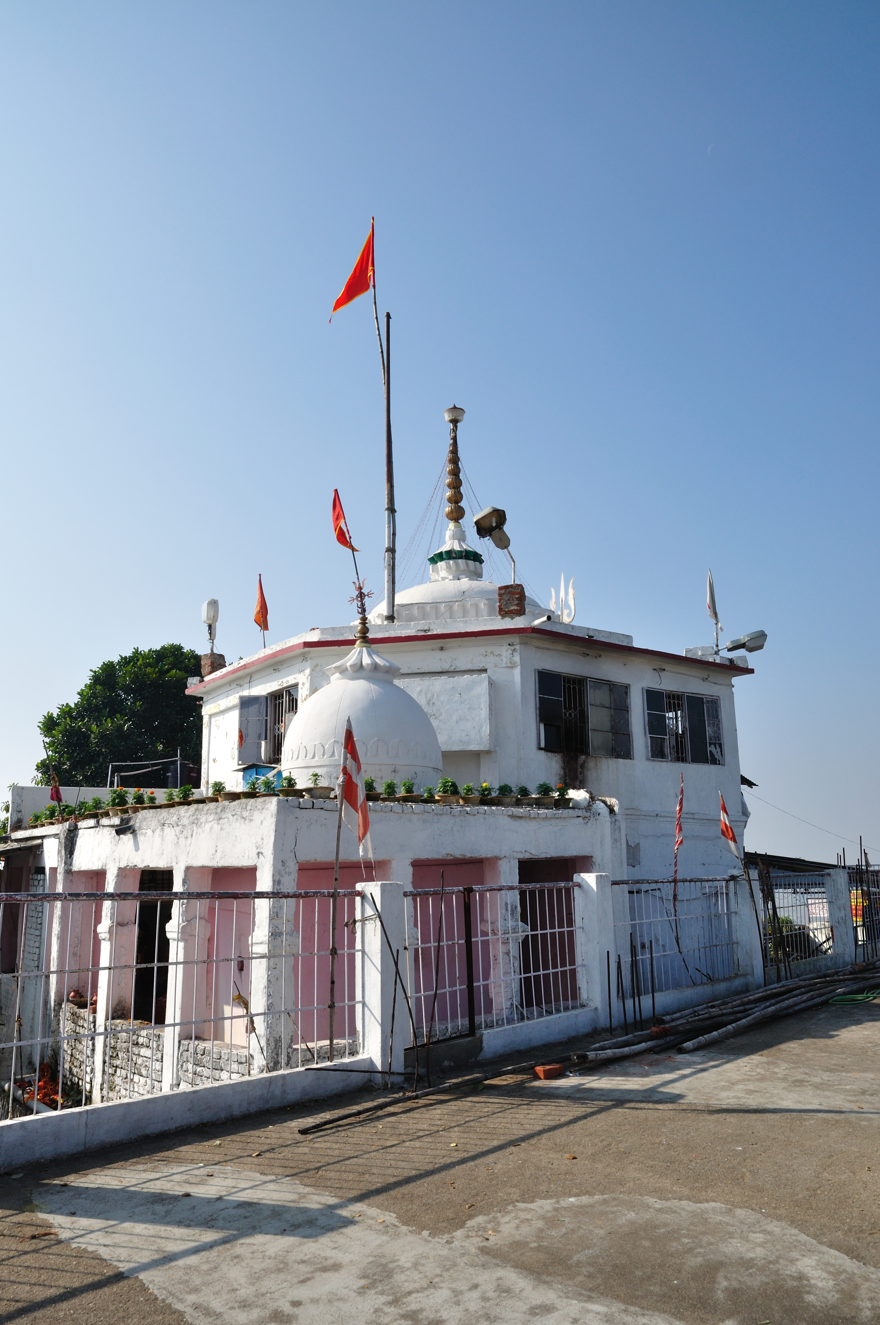 Ranchi Hill and Pahari Mandir : is one of the landmark of Ranchi Town. The Shiva temple is situated on the top of the hill also known as Pahari Mandir.